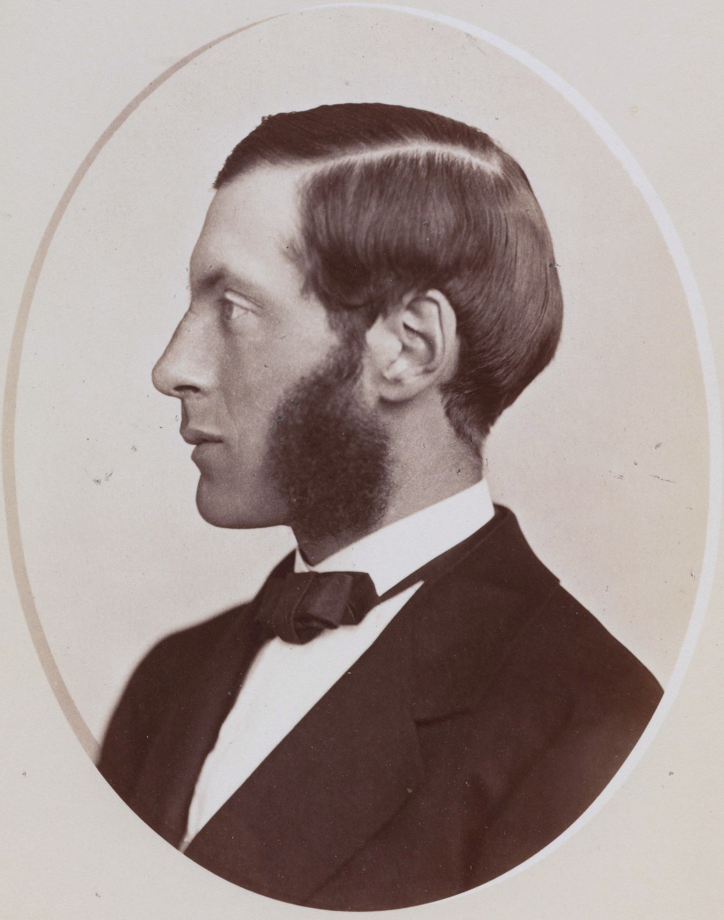 Charles William Eliot [photographic portrait, ca. 1865?]